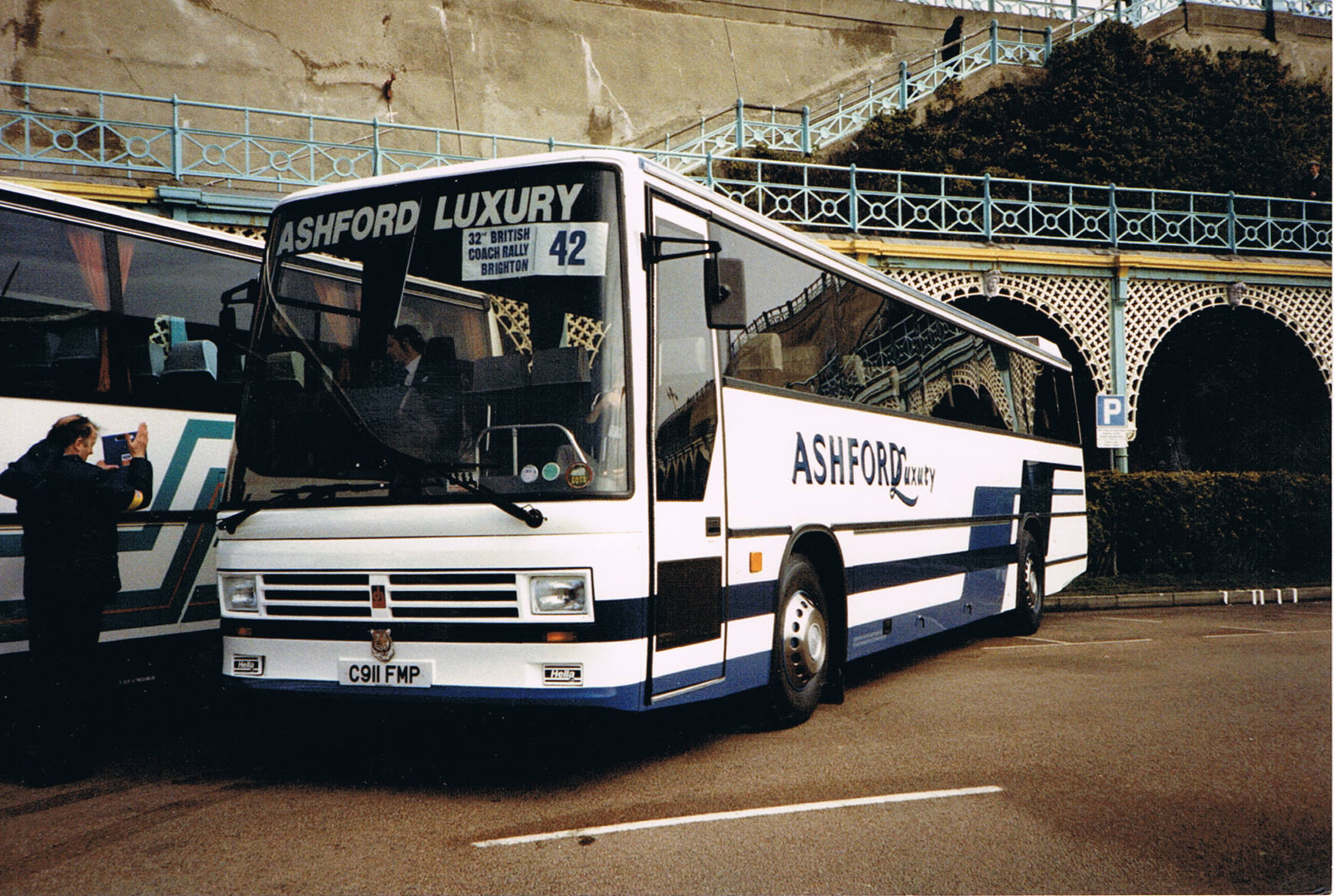 C911 FMP Leyland Tiger Duple 320 seen on Madeira Drive, Brighton competing in the 32nd British Coach Rally.